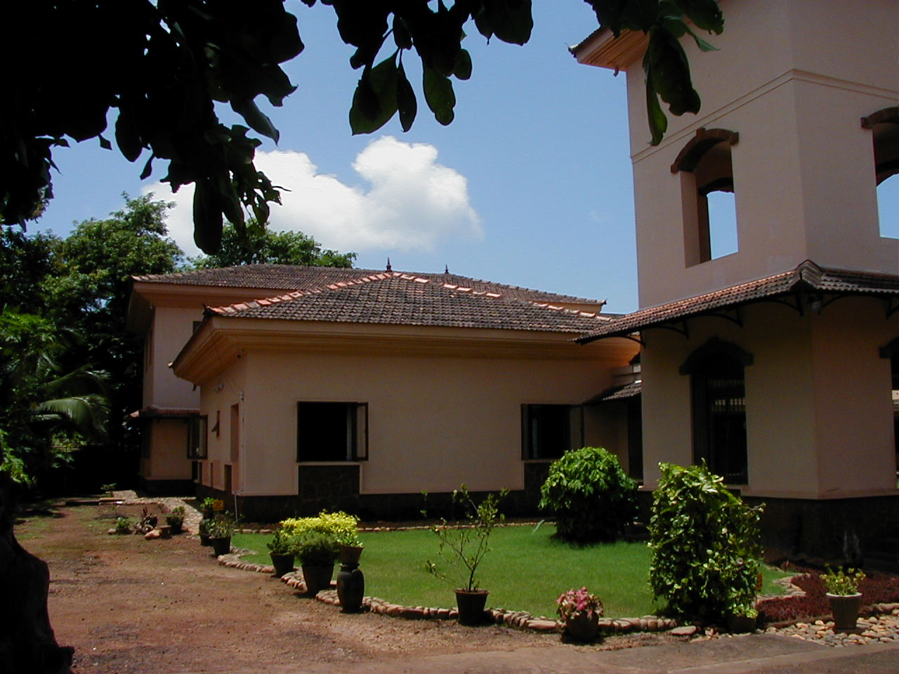 The campus of the Thomas Stephens Konknni Kendr (TSKK) is a Jesuit-run research-institute working on issues related to the Konkani language. It is based in Alto Porvorim, on the outskirts of the state capital of Goa, India. Photo by Frederick "FN" Noronha